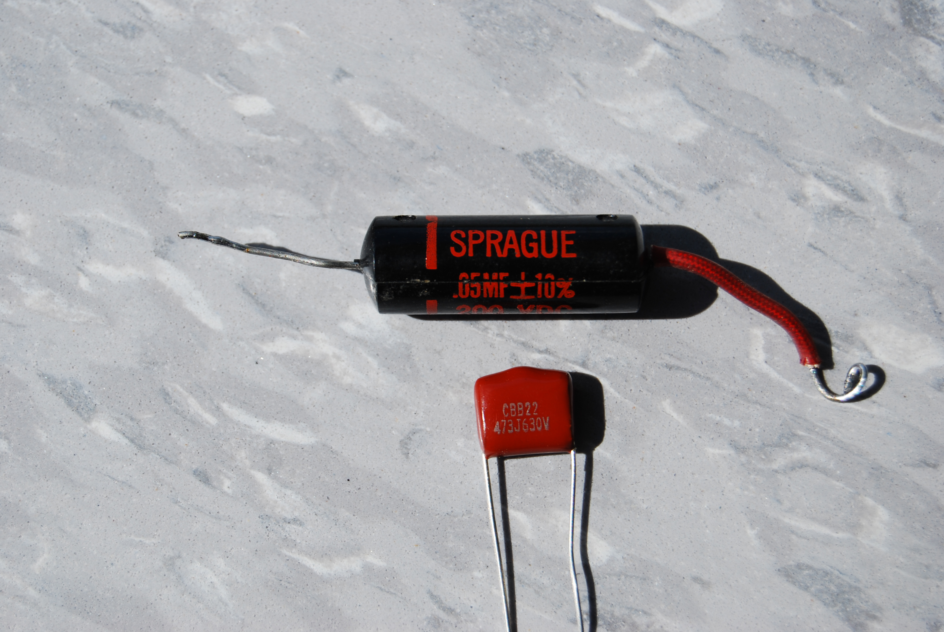 The introduction to film capacitors cut down the size of the capacitor. Both capacitors are the same capacitance value but the smaller one has 3 times the voltage rating.